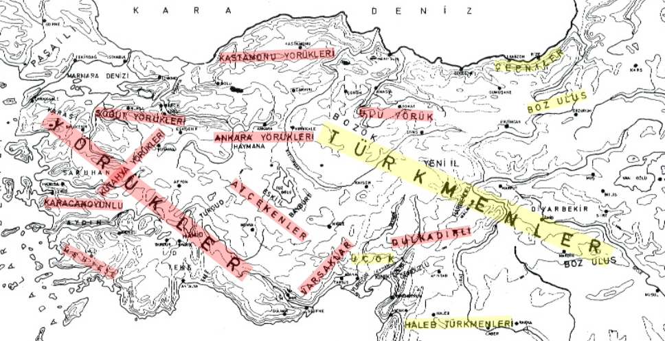 demographic distribution of Yörük and Turkmens in Anatolia.